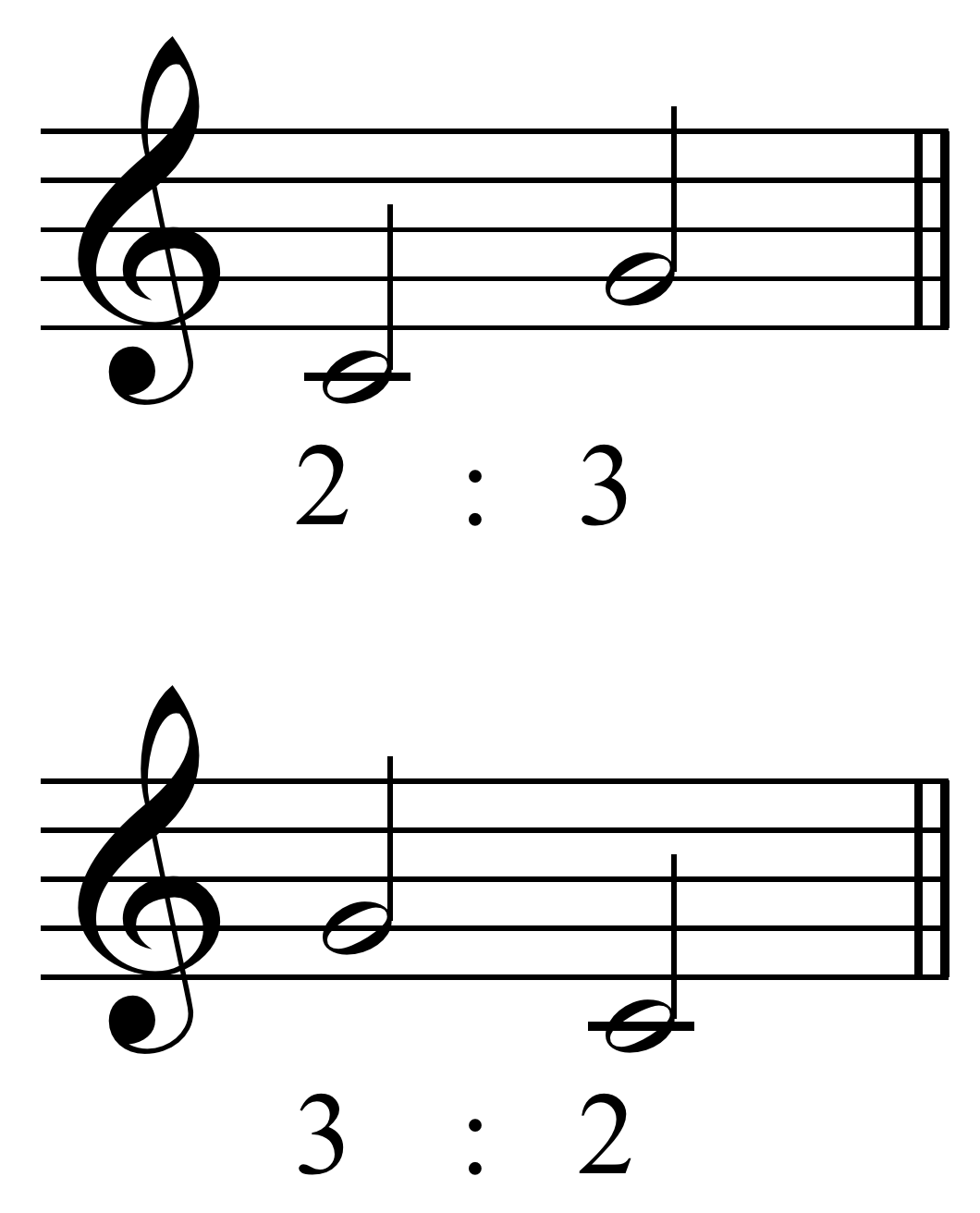 Melodic perfect fifth ascending and descending.